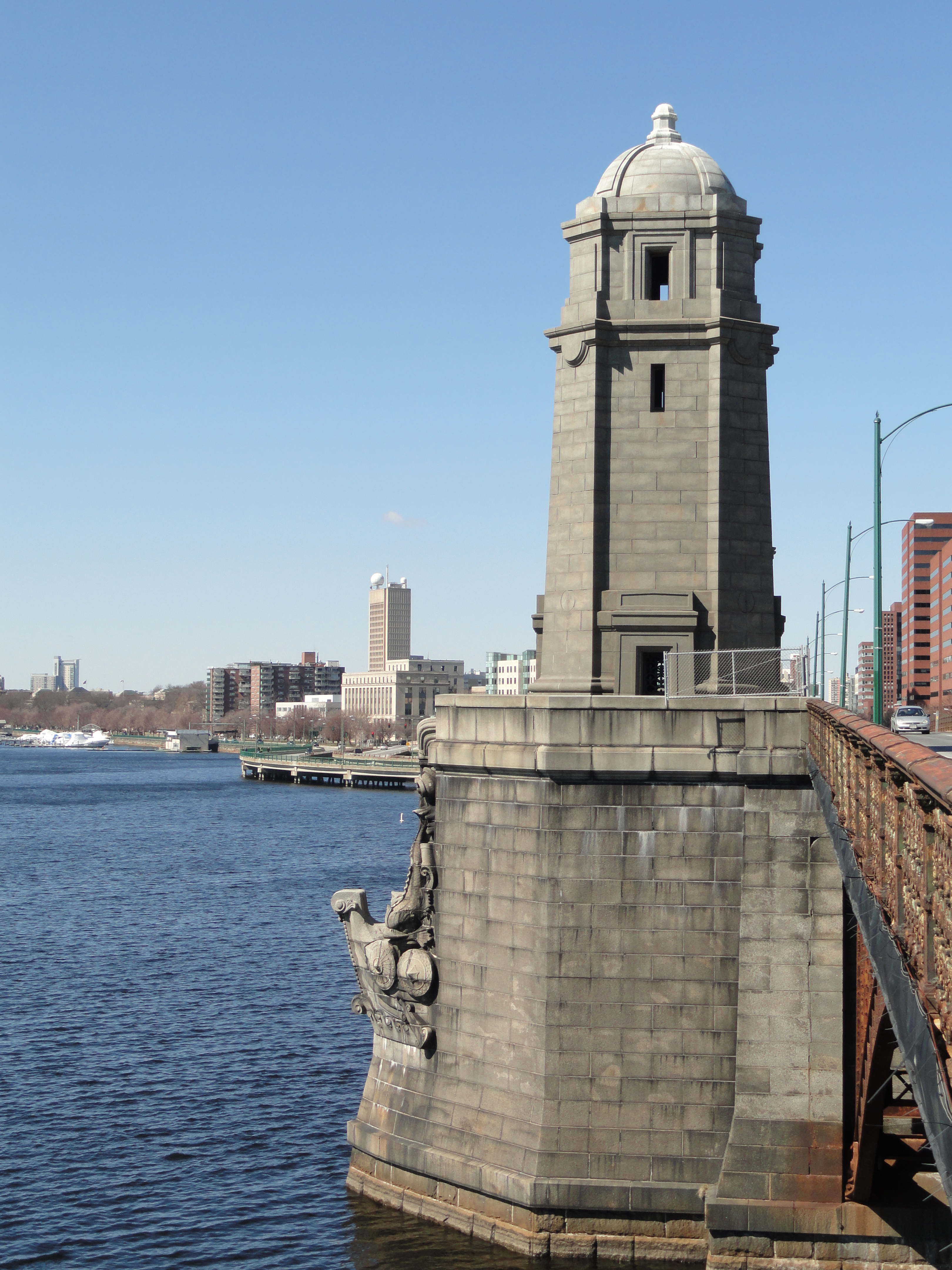 Longfellow Bridge between Cambridge and Boston, Massachusetts, USA.